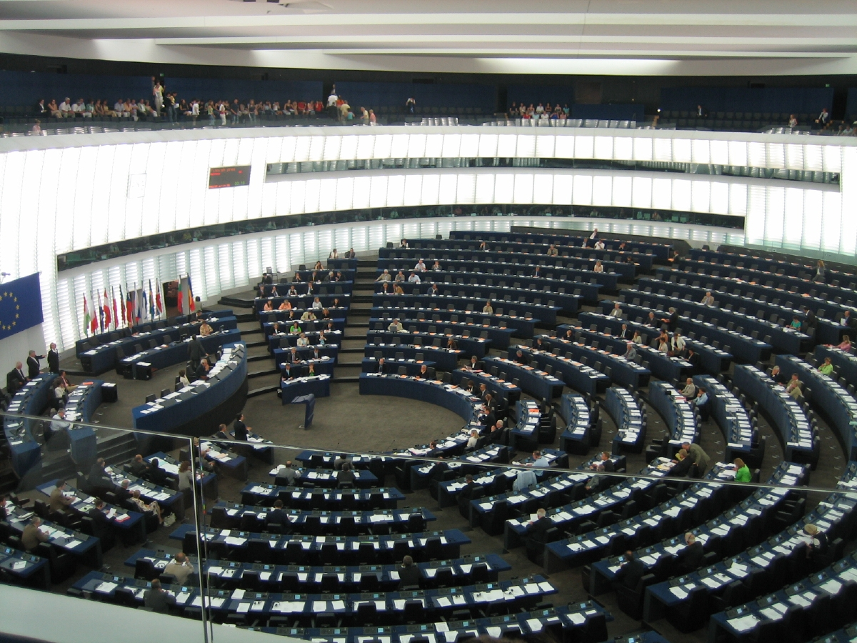 Hemicycle of the European Parliament in Strasbourg. Barroso giving speech, bottom left - front row. Borrell in the chair. Finnish Prime Minister as President-in-Office, front row opposite Barroso.